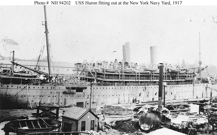 Former Friedrich der Grosse fitting out for World War I Navy service as USS Huron (ID-1408) at at the New York Navy Yard.